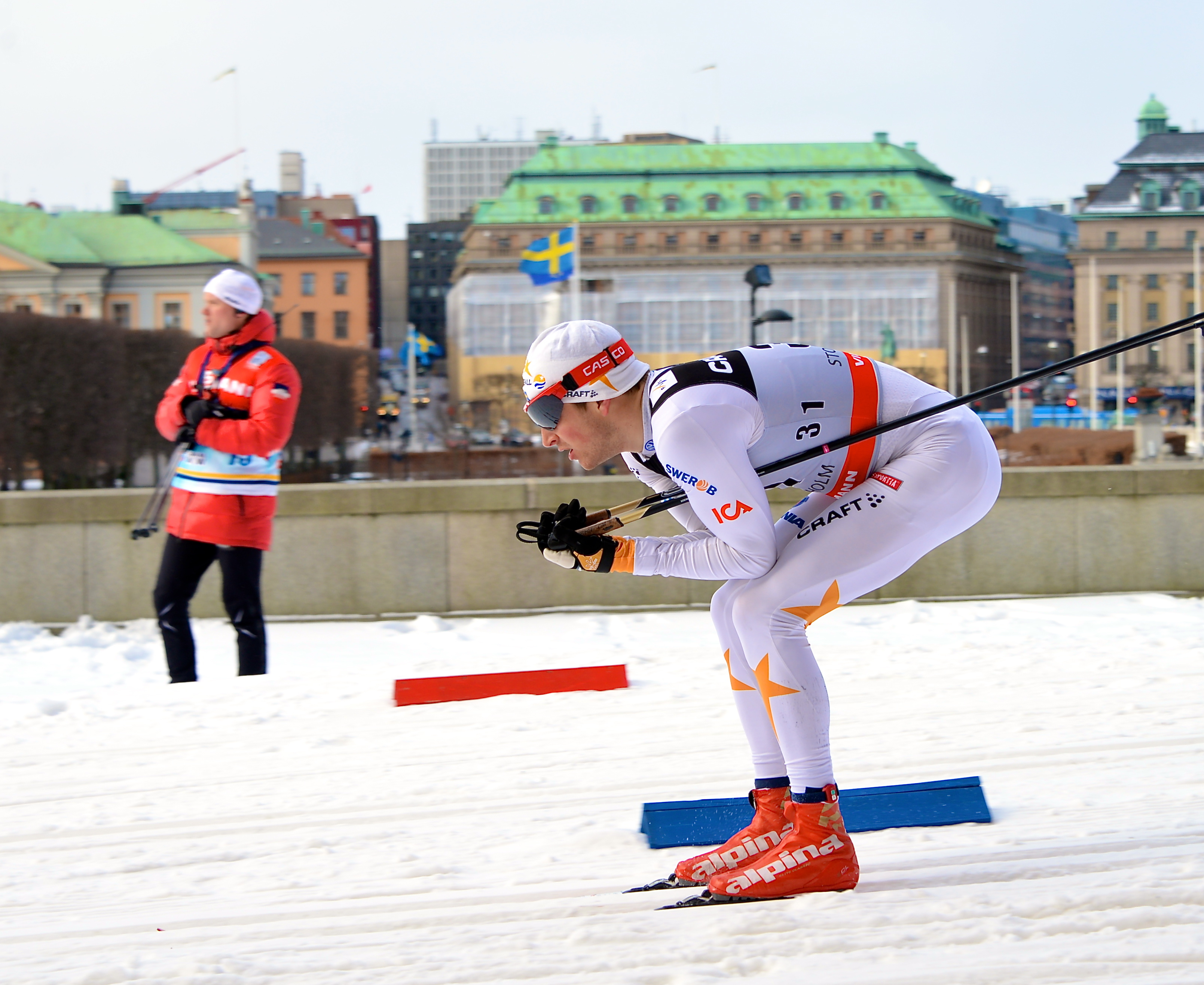 Teodor Peterson at the Royal Palace Sprint, part of the FIS World Cup 2012/2013, in Stockholm on March 20, 2013.